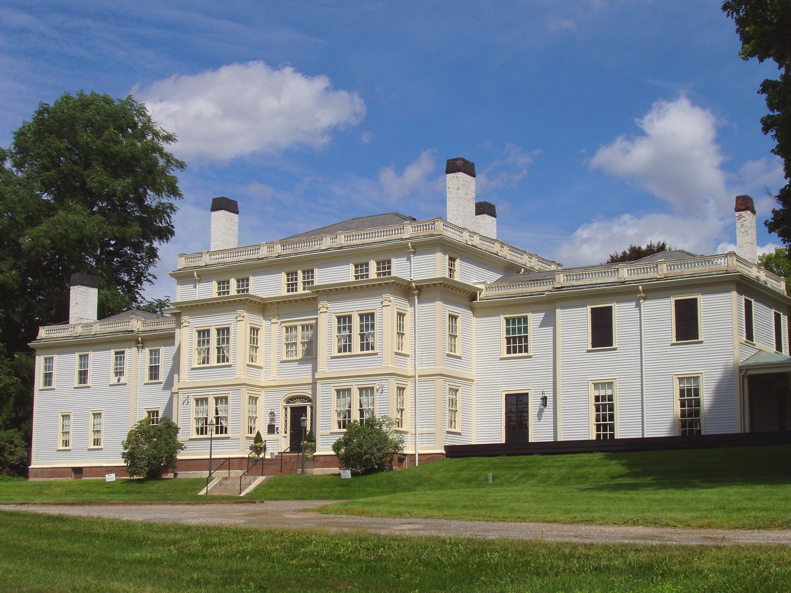 Lyman Estate, Waltham, Massachusetts - front facade. Photograph taken by me, August 2005.